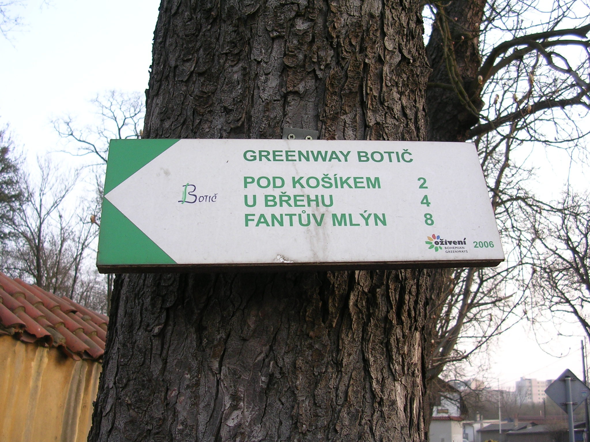 Záběhlice, Prague, the Czech Republic. Greenway Botič sign near Záběhlice Castle.